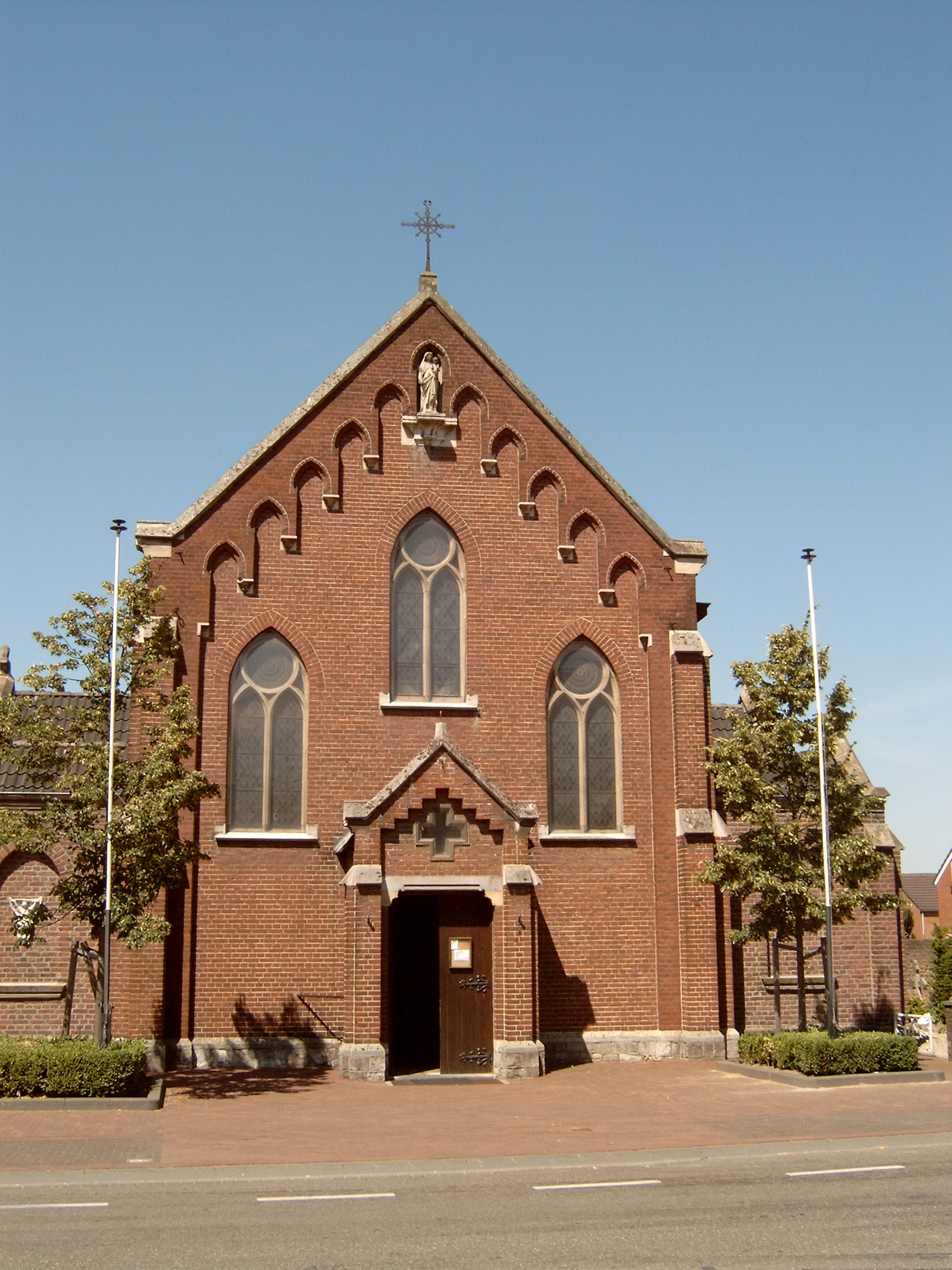 Rijckholt, church